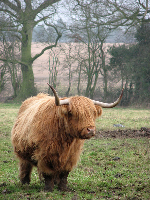 Chewing the cud. Highland cow in a roadside pasture, in the hamlet of Withergate.